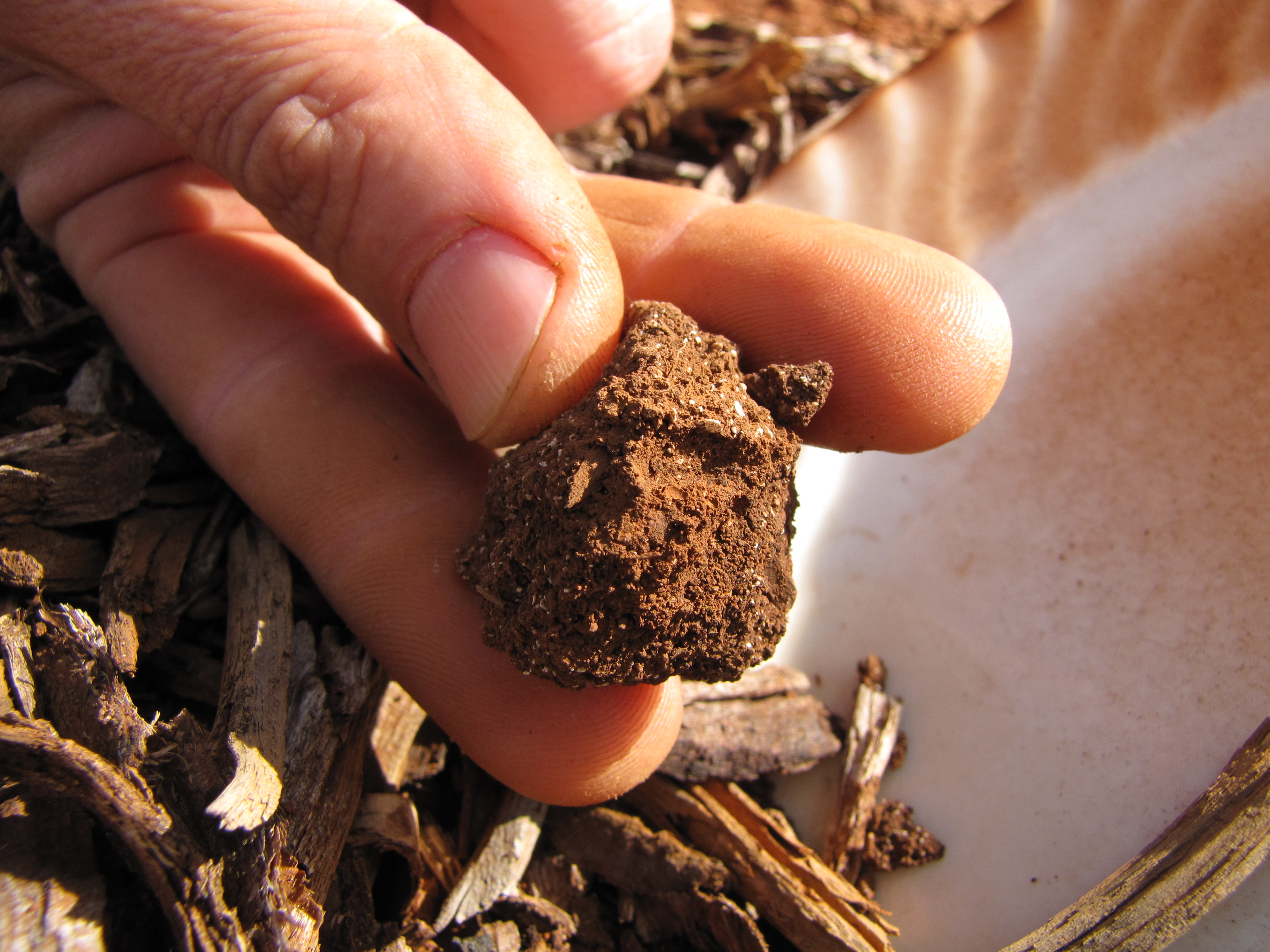 Chenopodium oahuense (Aweoweo) Seeds in seedball at Uprange, Kahoolawe, Hawaii. December 19, 2012 #121219-1169 Image Use Policy